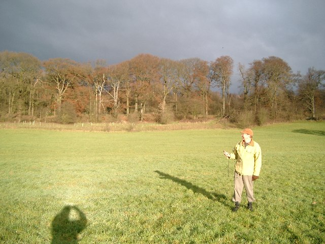 The Centre of Mainland Great Britain. Boxing Day morning in a field near Whalley at Grid Ref SD72321.72 36671.1 (approximately)